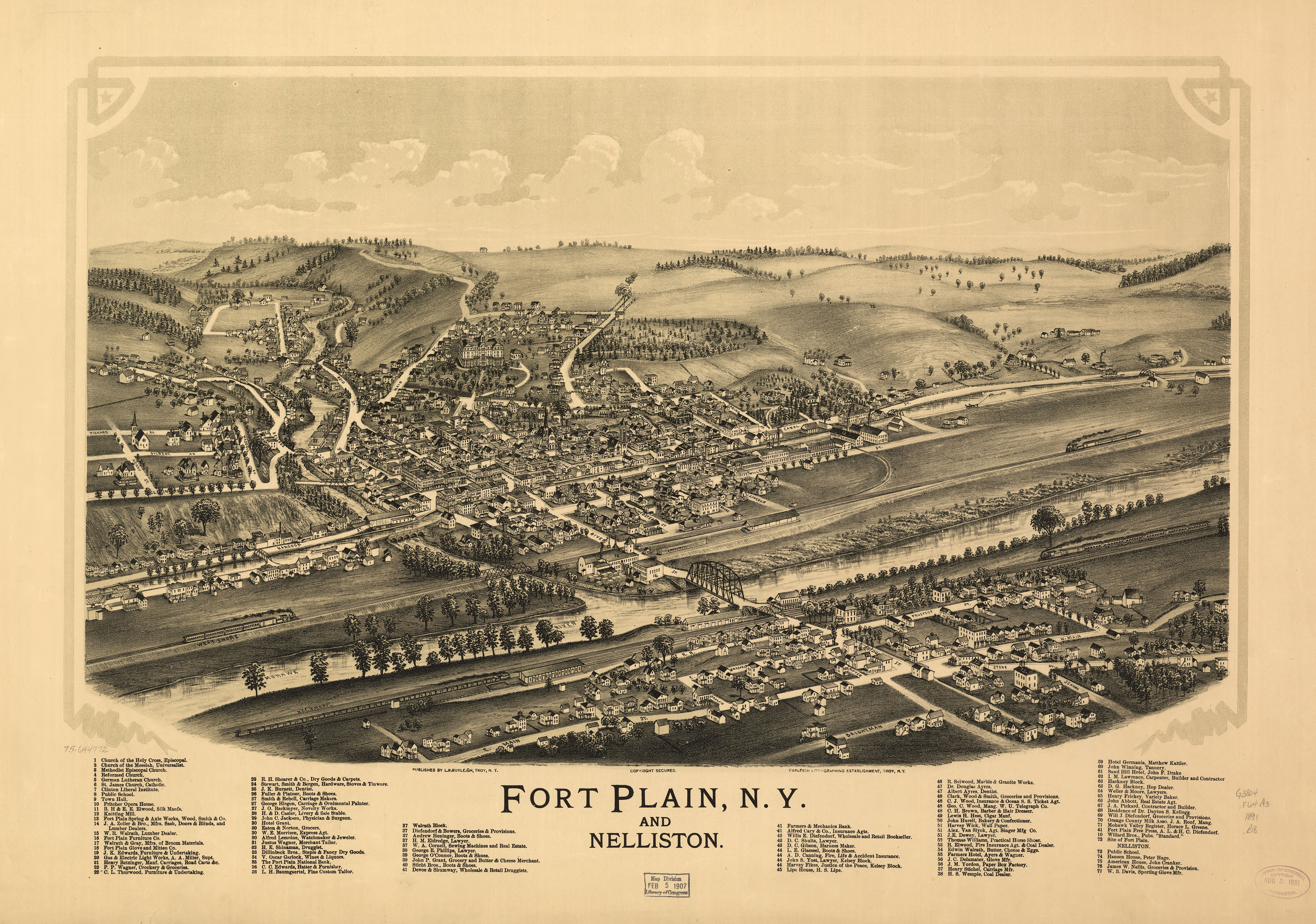 Perspective map not drawn to scale. Bird's-eye-view. LC Panoramic maps (2nd ed.), 563 Available also through the Library of Congress Web site as a raster image. Indexed for points of interest. AACR2: 100; 651/2; 710